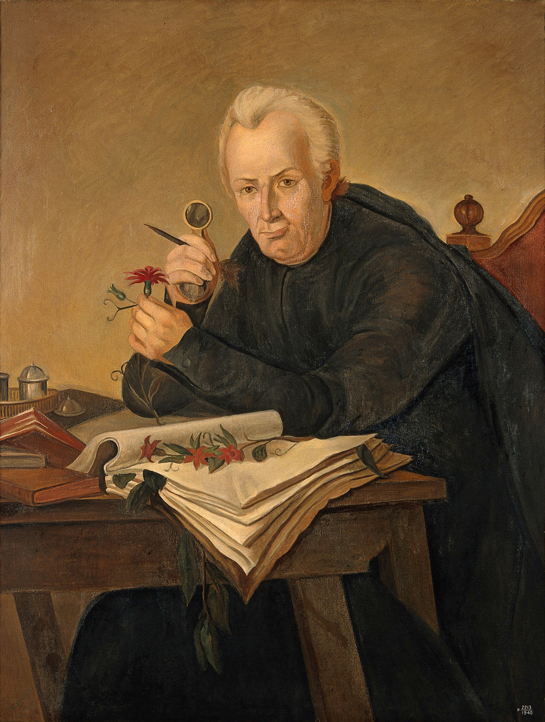 José Celestino Mutis, botanist of New Granada (Colombia), born in Cádiz, Spain, in 1732. (Wellcome Collection, 183 Euston Rd, London, UK)